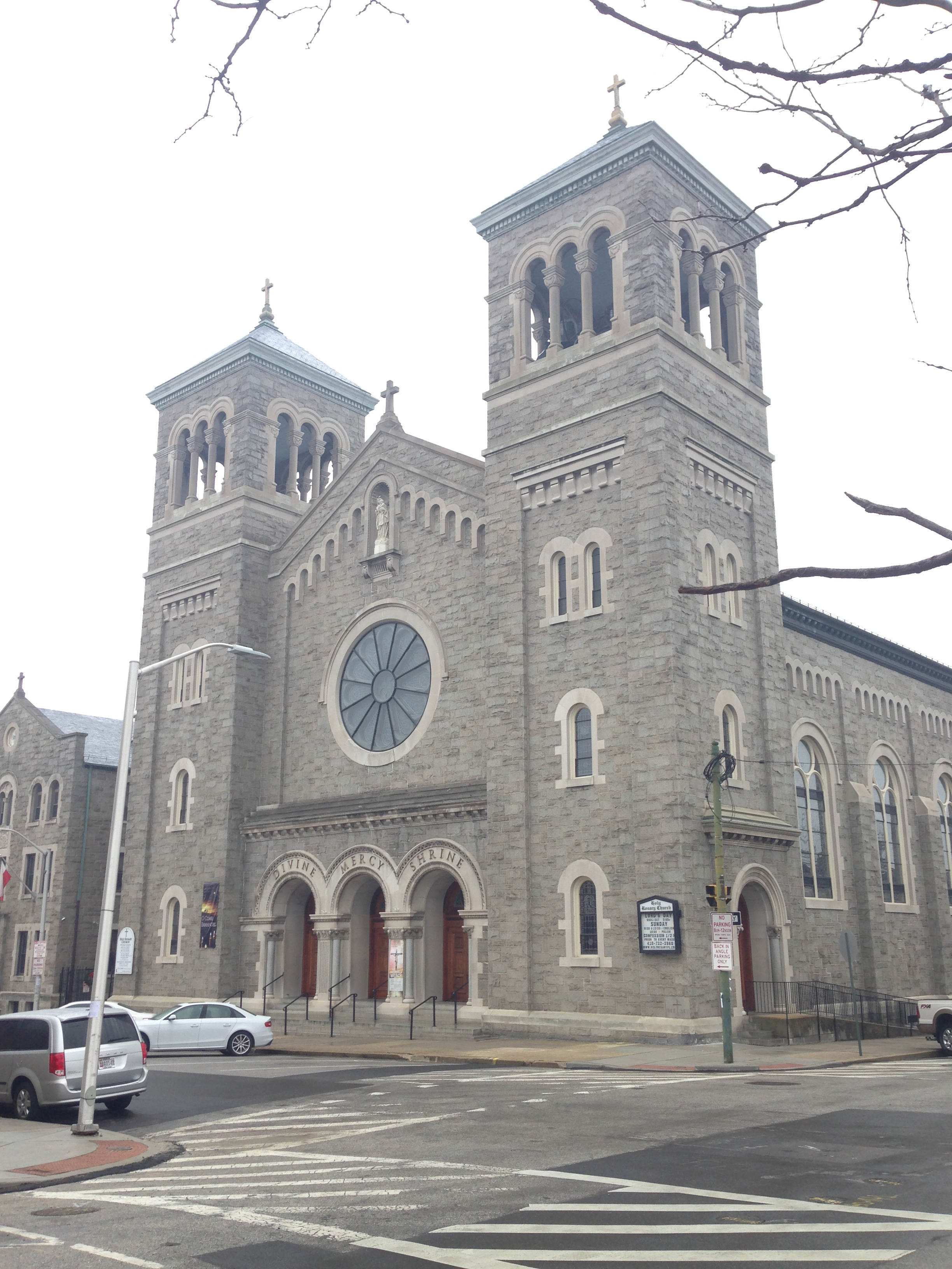 Holy Rosary Church, Upper Fells Point, Baltimore, Maryland.